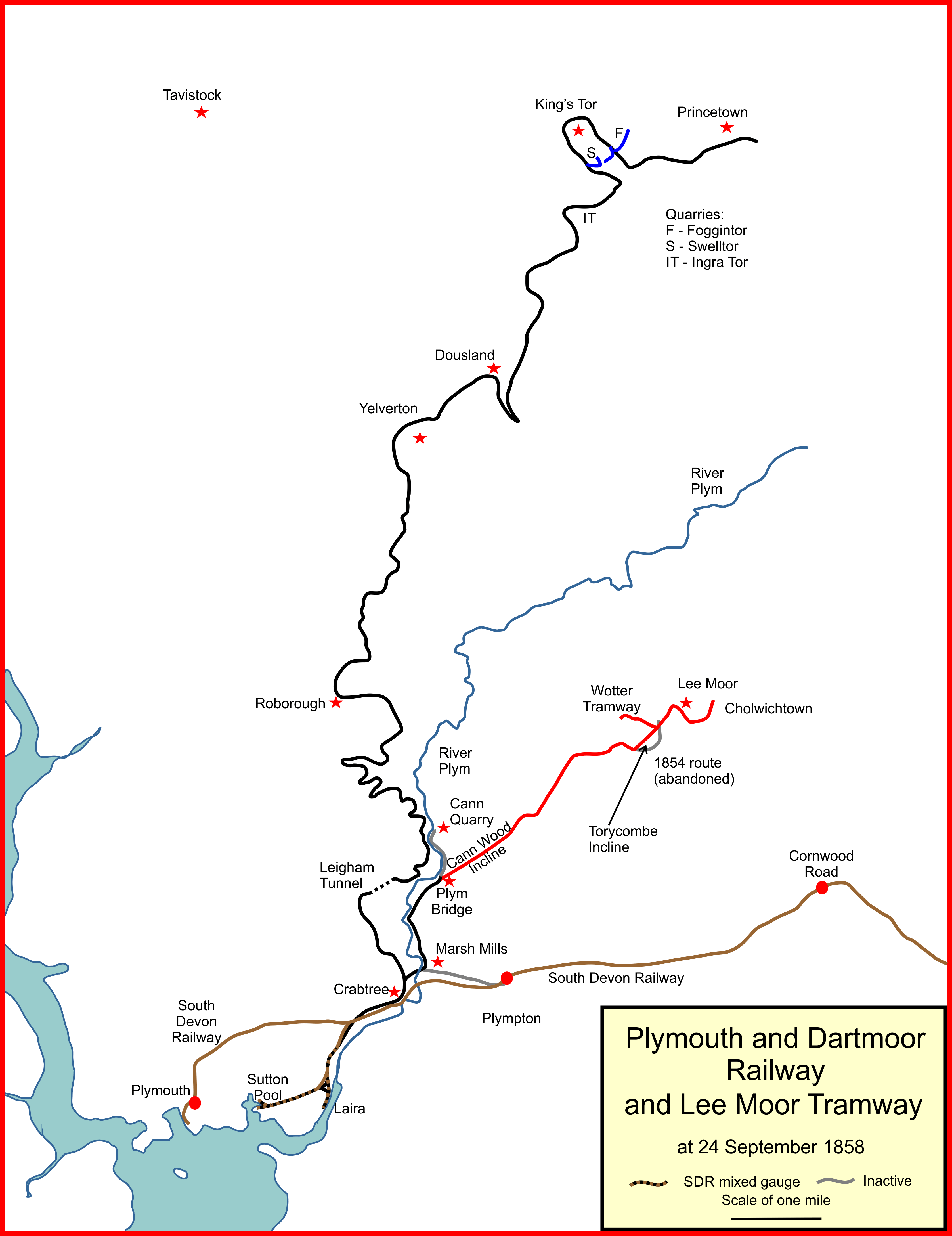 Map of Plymouth and Dartmoor Rly England in 1858